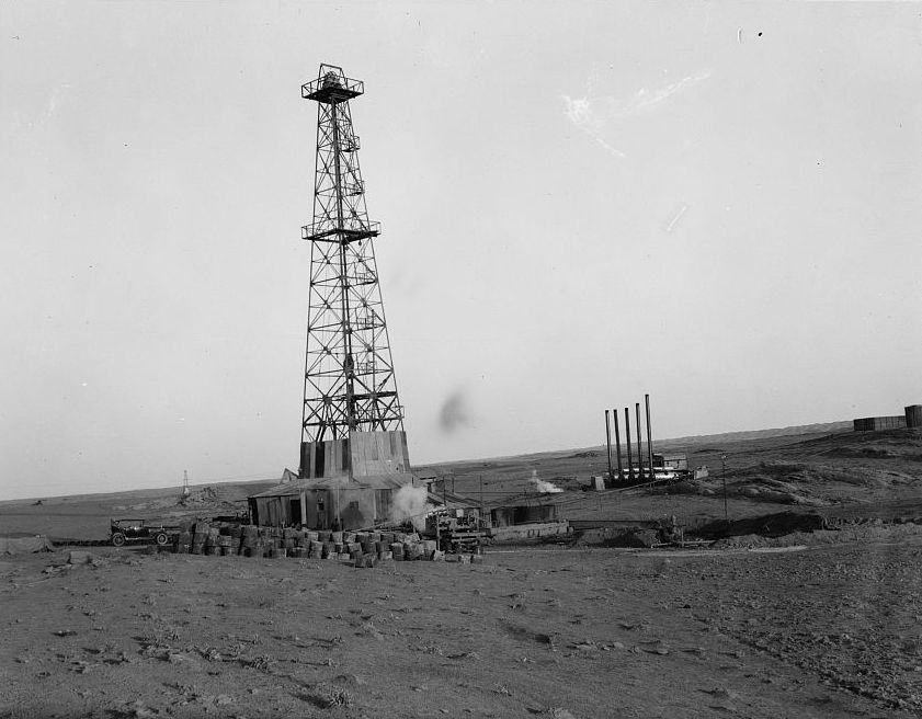 Iraq. Oil wells and camp of the Iraq Petroleum Company. (5 miles S. of Kirkuk). Kirkuk District. An oil driller. Showing full height of drill.tower